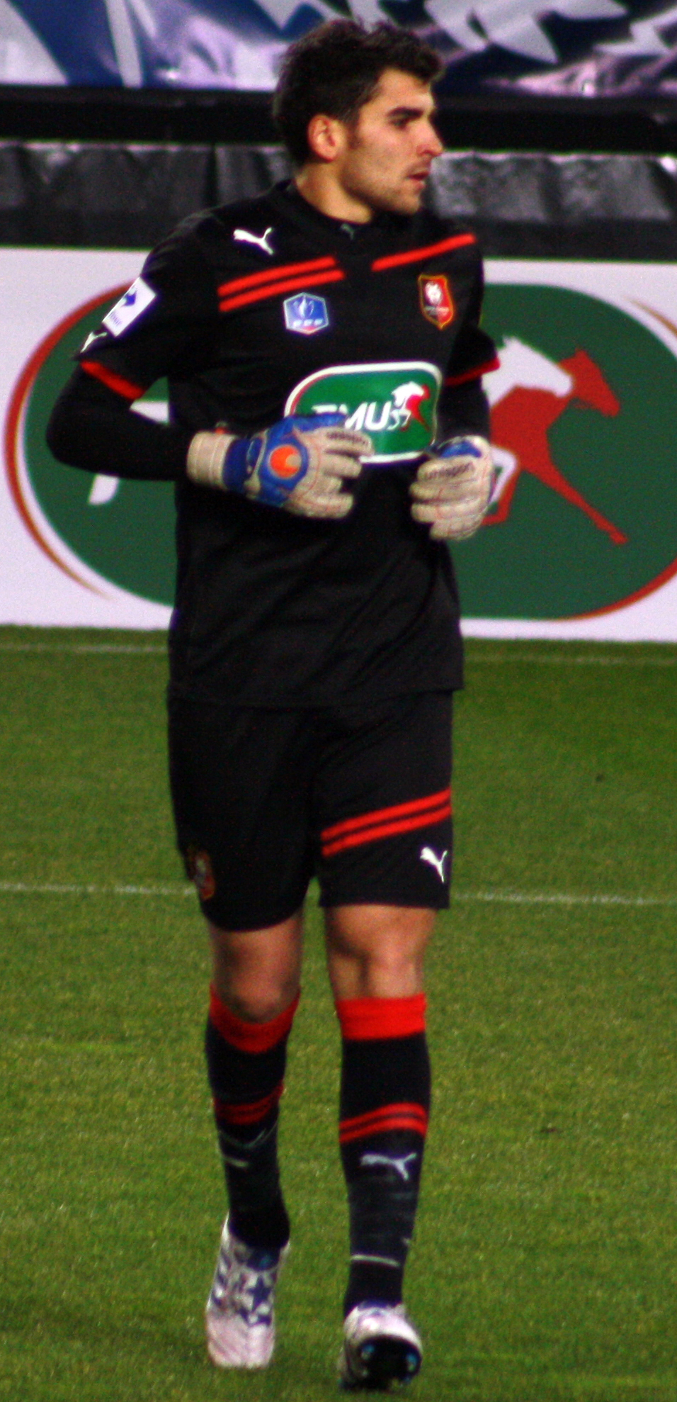 Johann Carrasso's photo, football player , with Rennes' jersey. French cup match against Cannes.